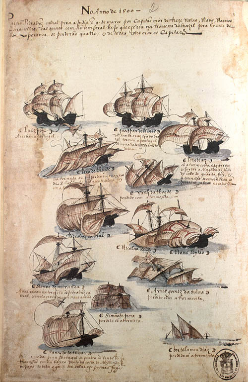 Depiction of the 2nd Portuguese India Armada (fleet of Pedro Alvares Cabral, 1500) from the Livro das Armadas (Academia de Ciencias de Lisboa)